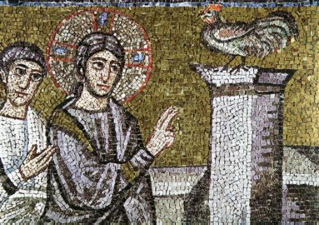 Mosaic in Basilica of Sant'Apollinare Nuovo. Peter`s Denial